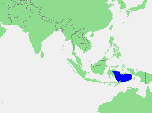 Banda Sea